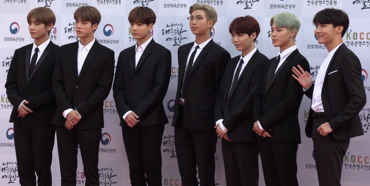 BTS on the red carpet of Korean Popular Culture & Arts Awards on October 24, 2018.